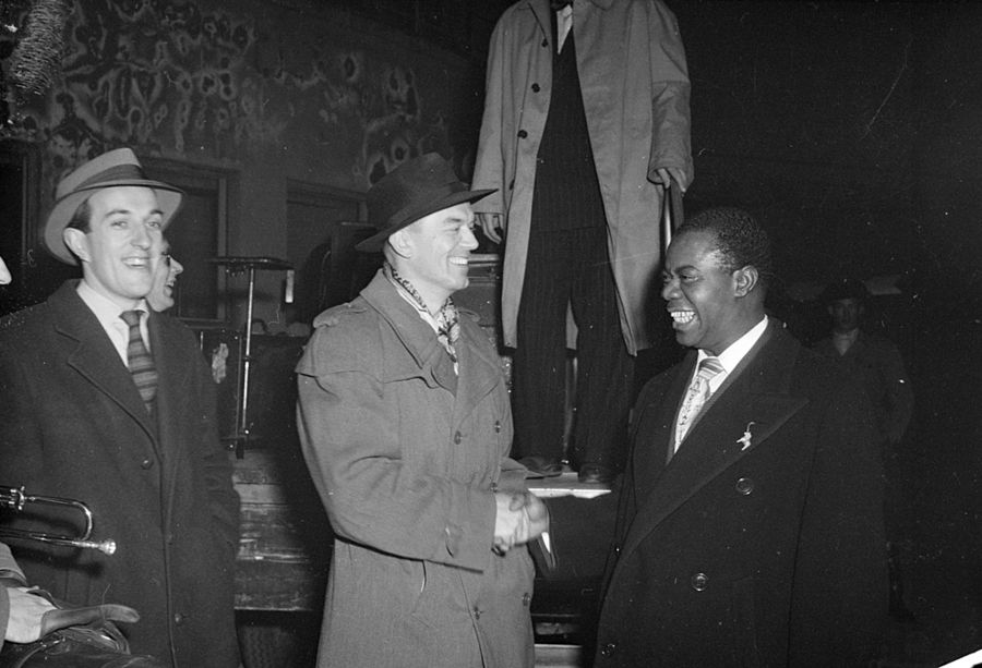 Armstrong met the leading jazz-musicians of Finland, among others (from left) Erik Lindström and Ossi Aalto.